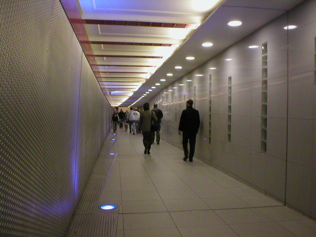 The Mäusetunnel (German for mice tunnel), a link between Berlin U-Bahn lines U2 and U6